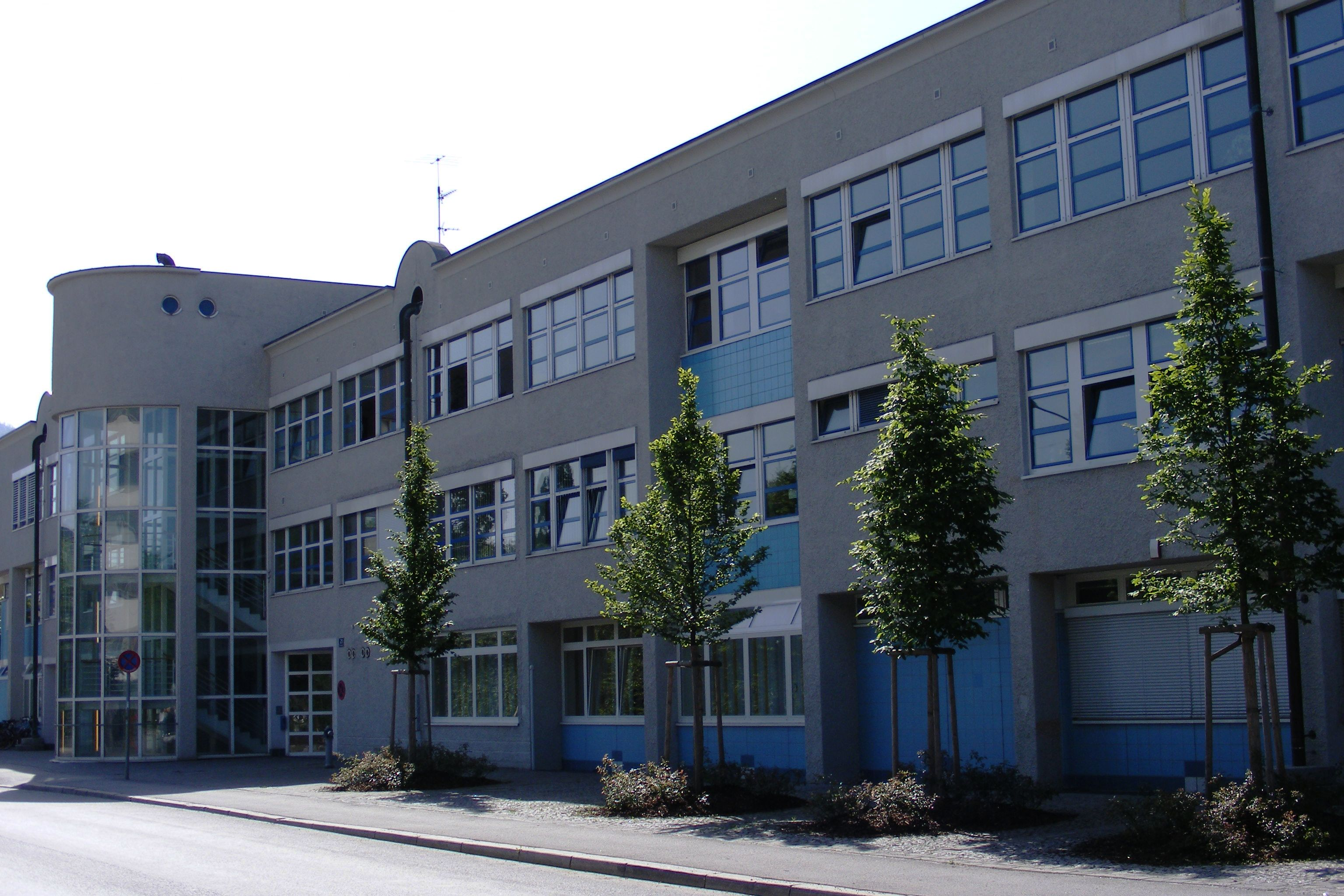 Private Medical University "Paracelsus", Salzburg, Austria